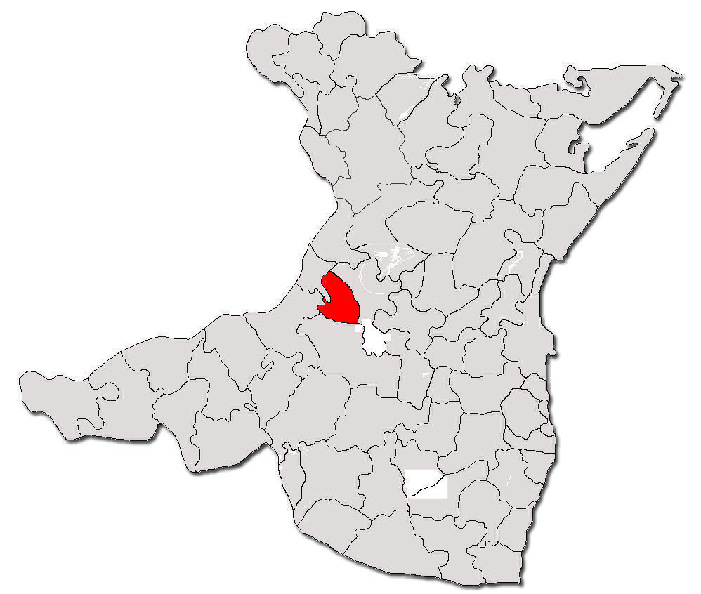 Countour map of Saligny commune